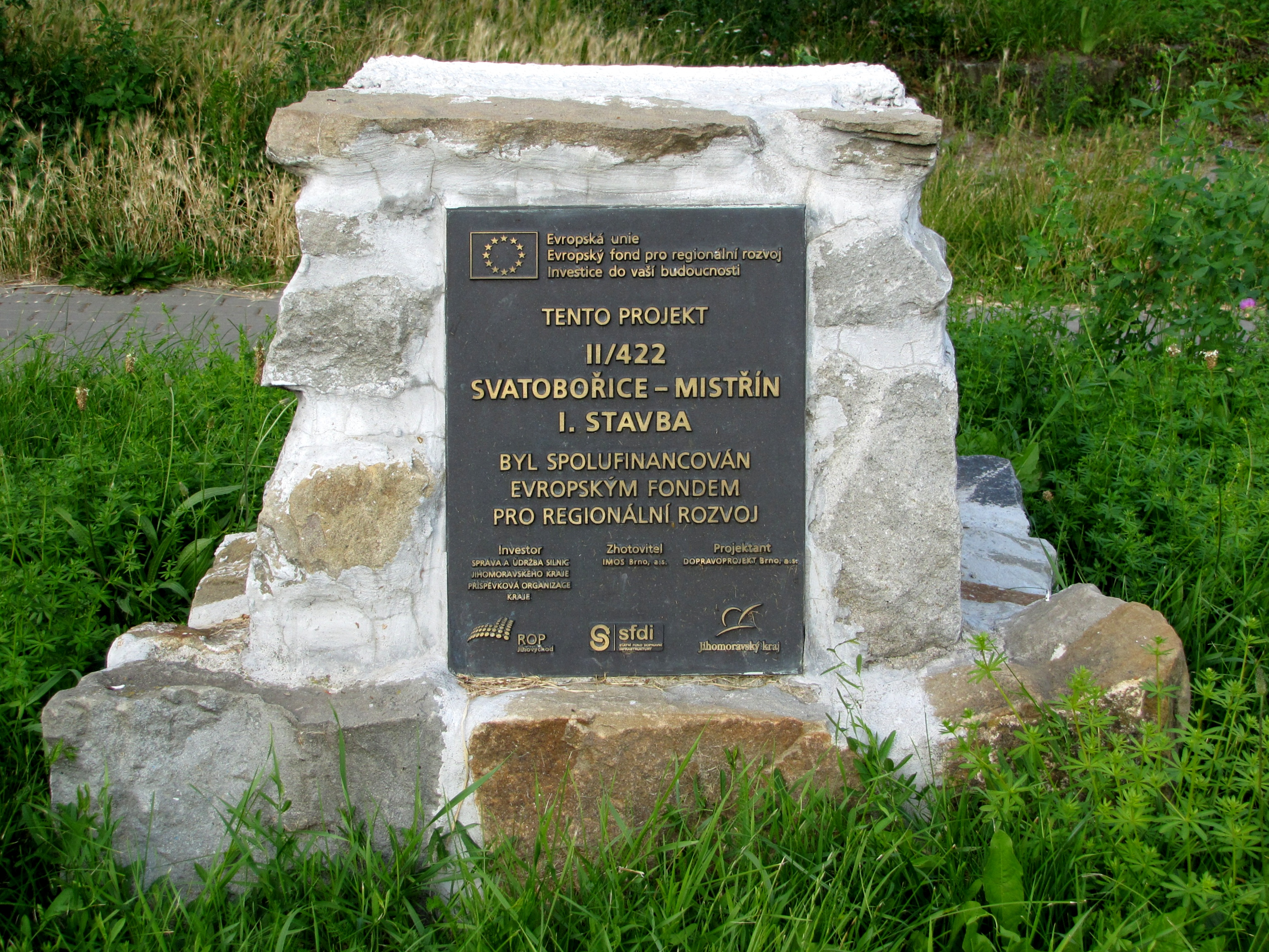 Informační deska ve Svatobořicích ke opravě silnice č. II/422